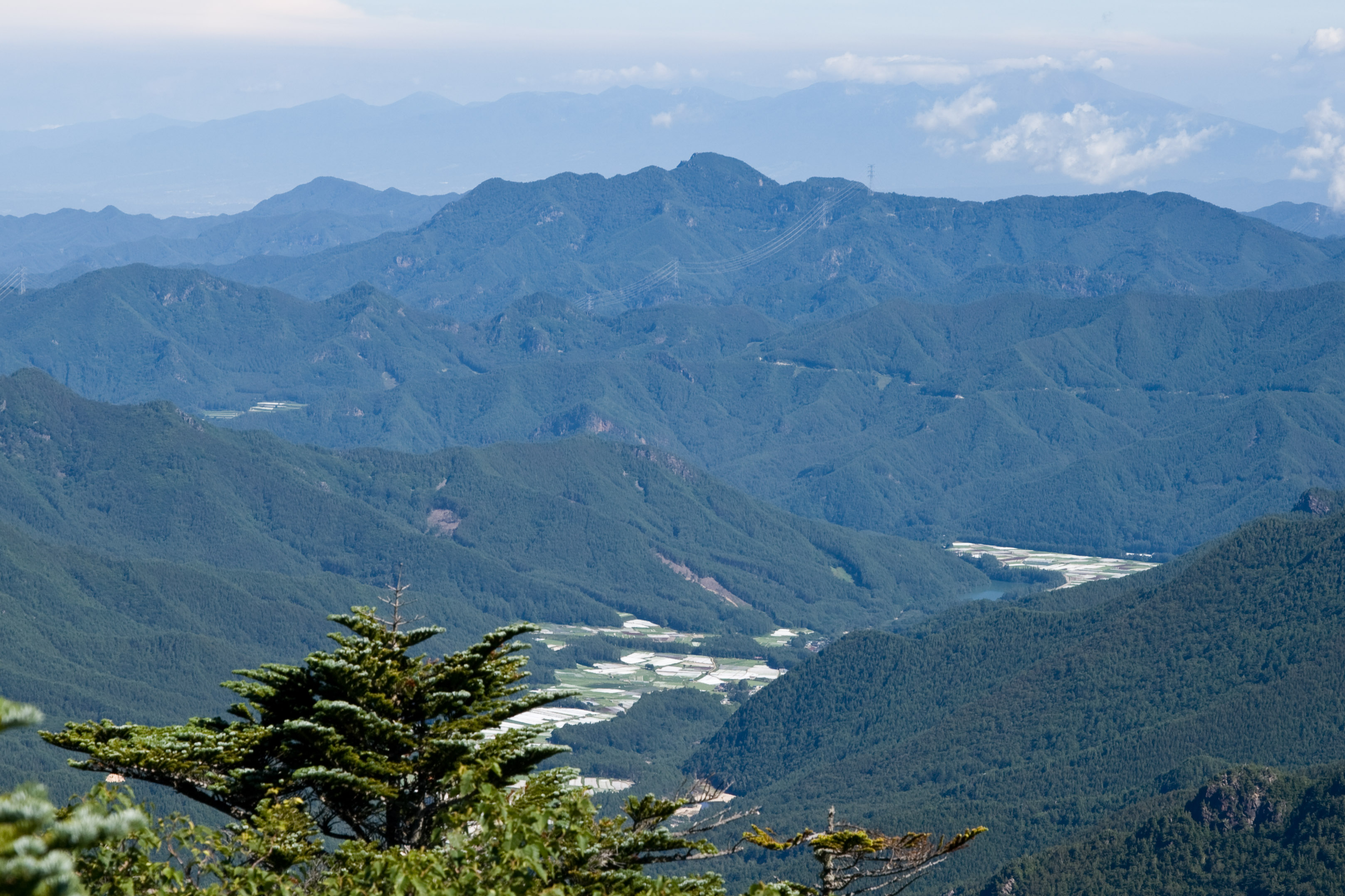 Mount Ogura, Nagano Pref., Japan.